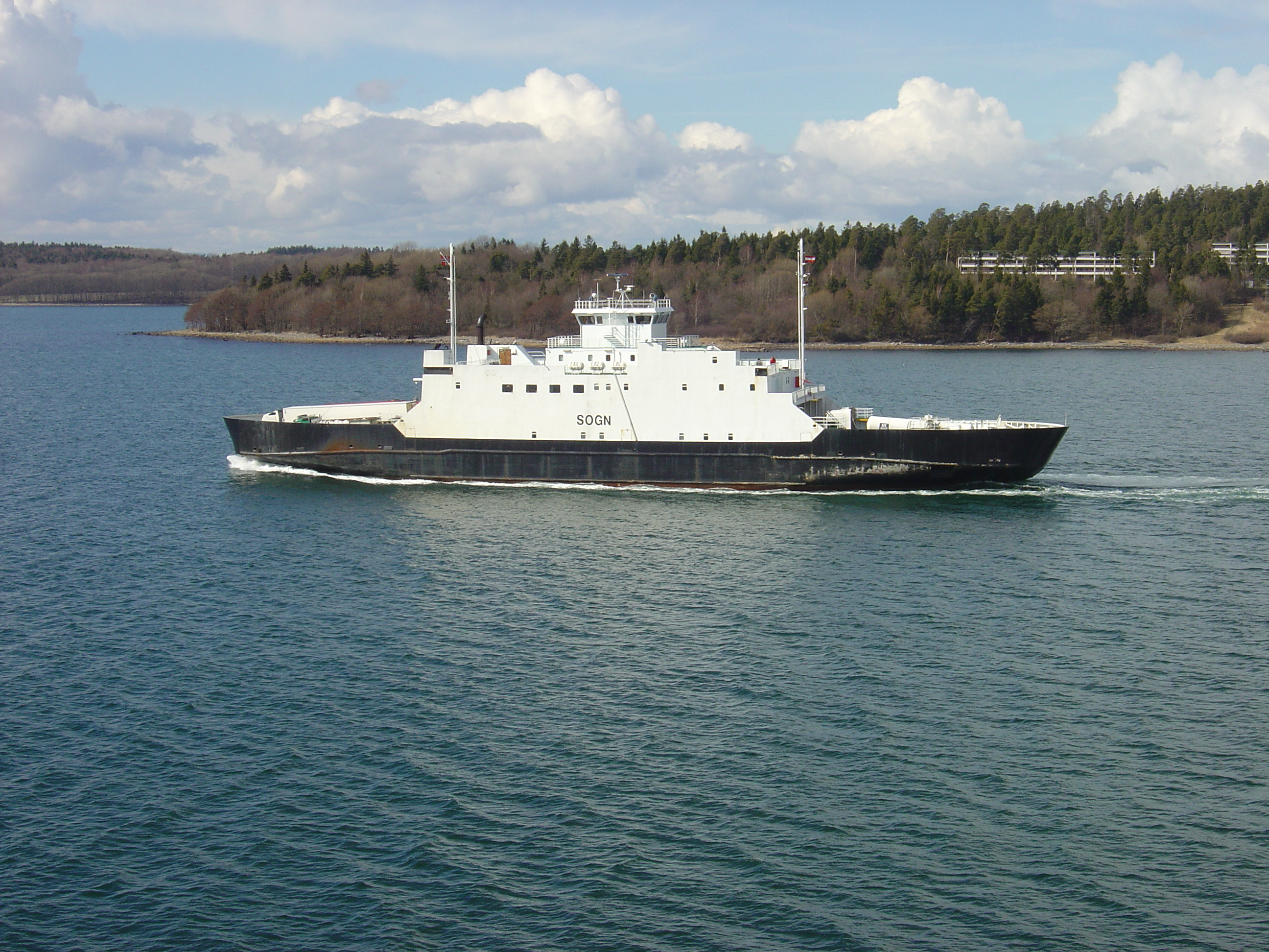 The local ferry MF Sogn photographed crossing the Oslo fjord, sailing between Moss and Horten